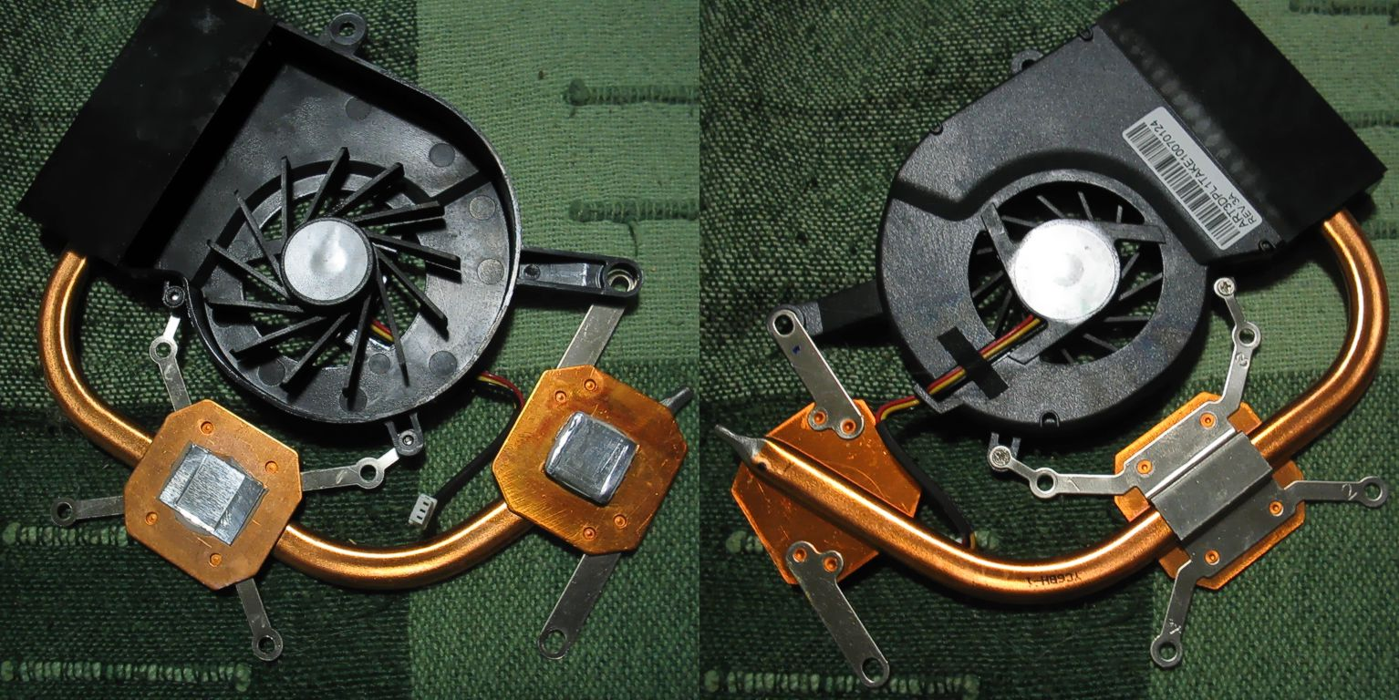 Heatsink CPU and GPU laptop